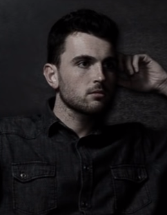 Dutch singer Duncan Laurence in a music video (2014).